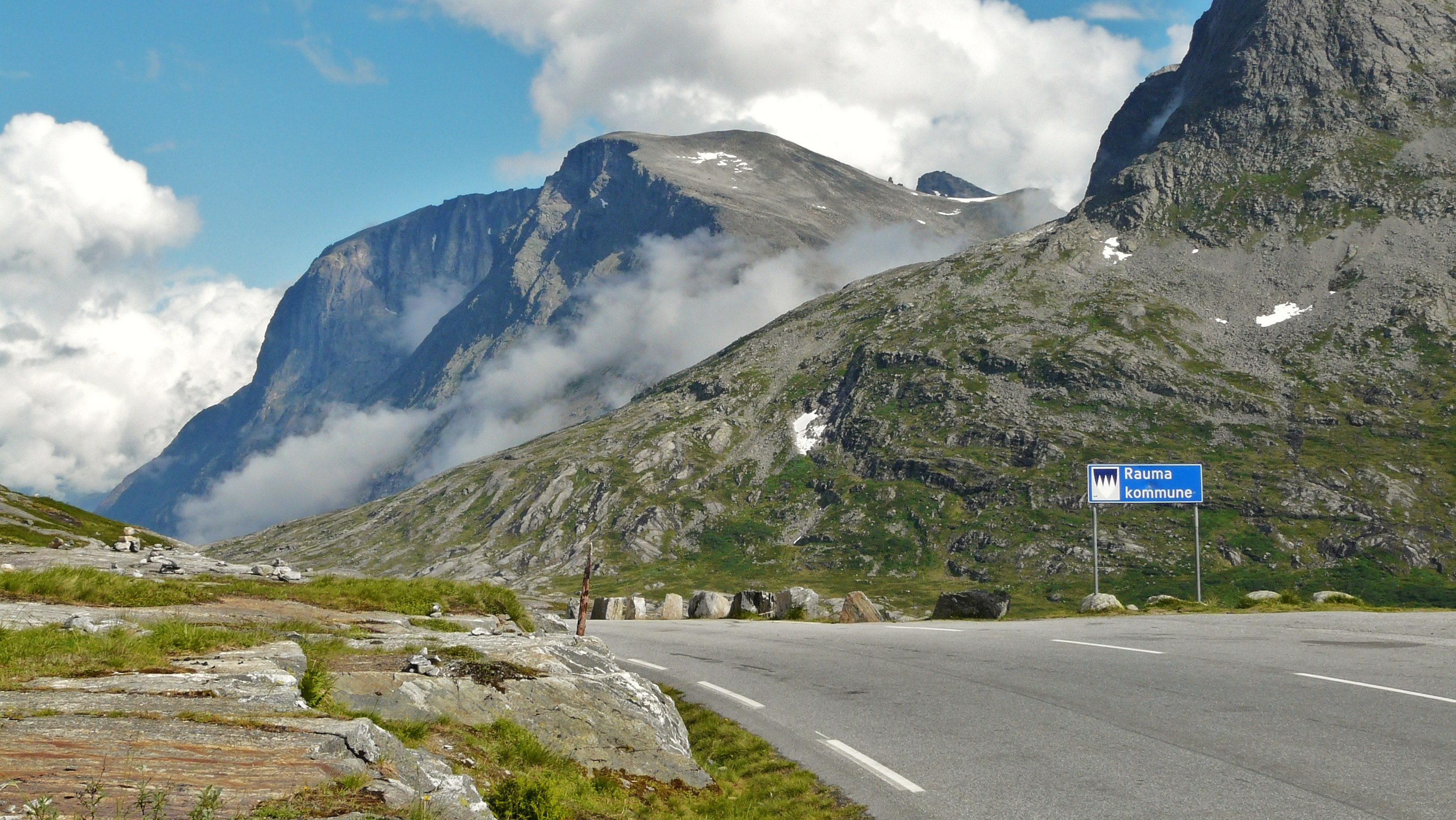 An entry sign of Rauma municipality by the Riksvei 63 road at the border area of Rauma and Norddal in 2008 August.